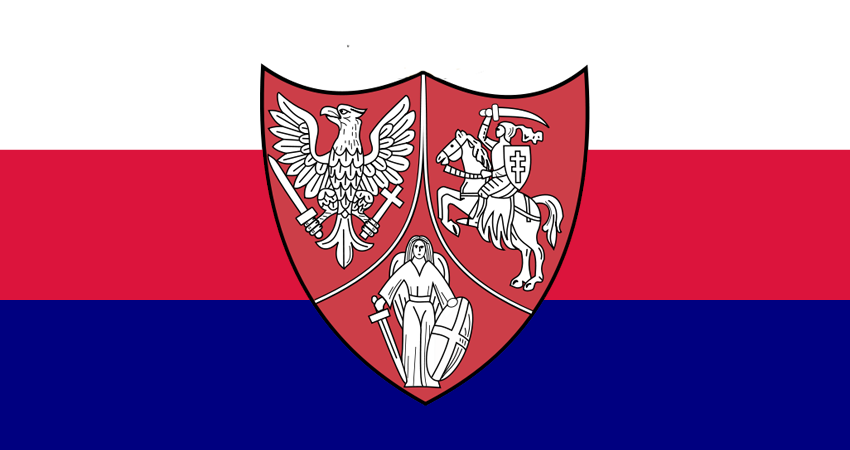 Flag of the January Uprising (one of many)